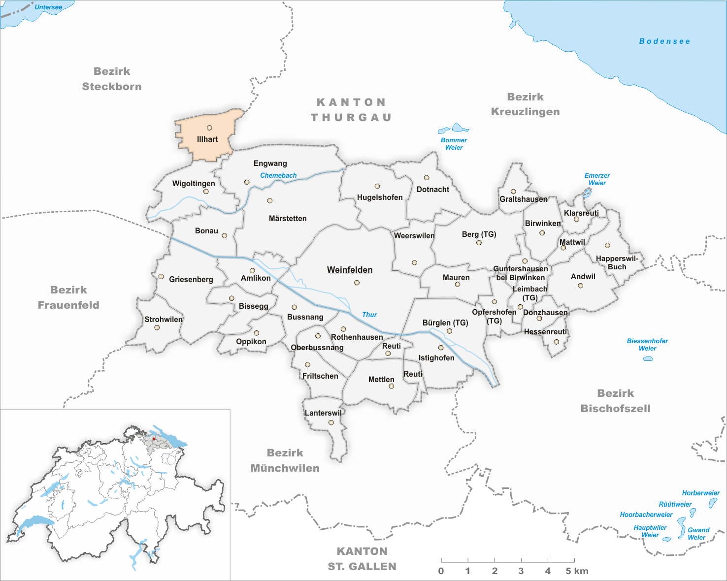 Municipality Illhart